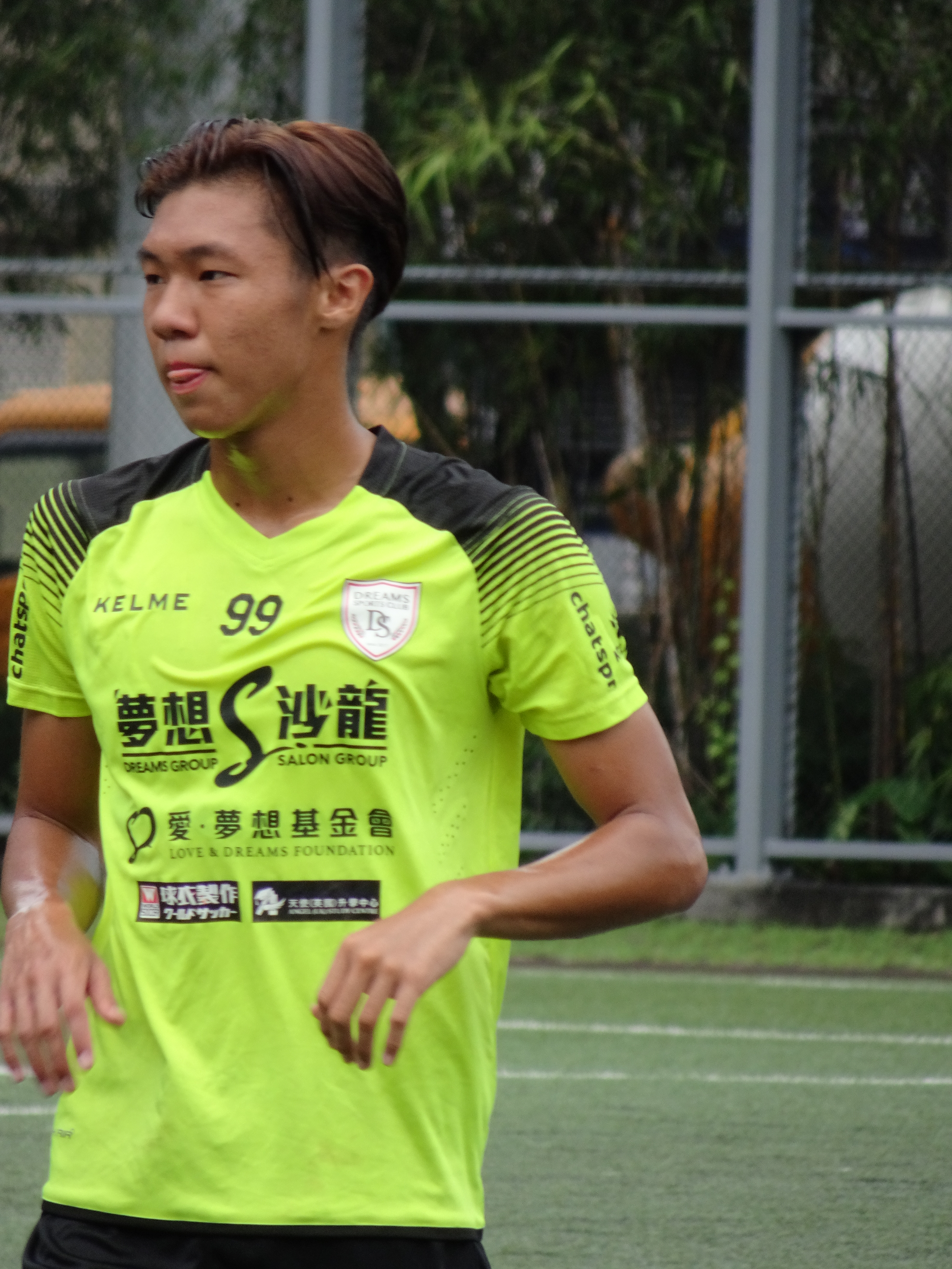 Chu Wai Kwan (3 Aug 2017, Friendly match, Eastern vs Dreams FC, Kowloon Bay Park) 中文（香港）: 朱偉鈞 (3 Aug 2017, 友賽, 東方 vs 夢想FC, 九龍灣公園)